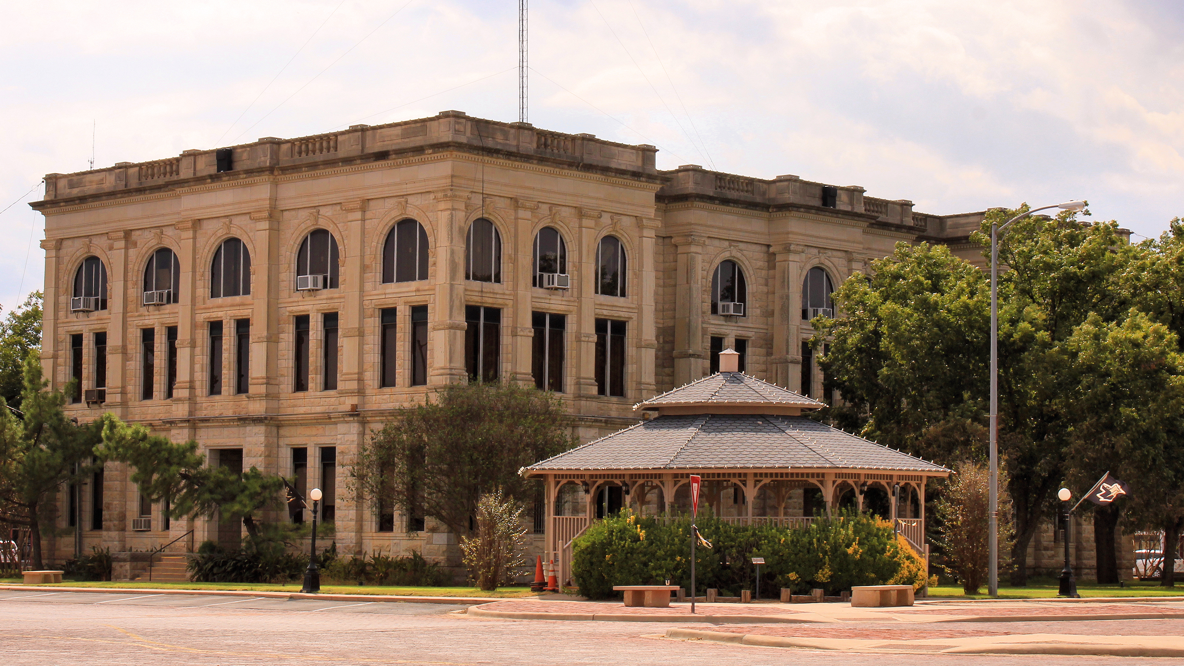 The Haskell County, Texas Courthouse in Haskell, Texas, United States was built in 1906.